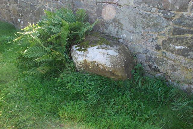 Mounting stone on the path to St Tudwen's church, Llandudwen, Gwynedd. This ordinary-looking boulder is neatly inscribed "carreg farch" - horse stone, and was used by worshippers who came to church on horseback.